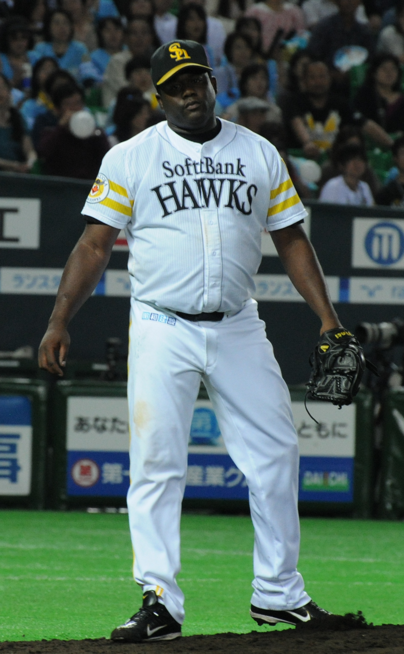 Yhency Brazobán, pitcher of the Fukuoka SoftBank Hawks, at Fukuoka Dome.